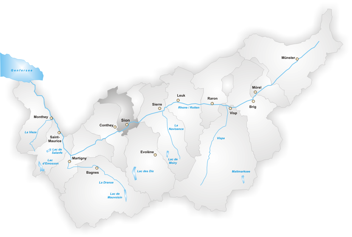 District Sion